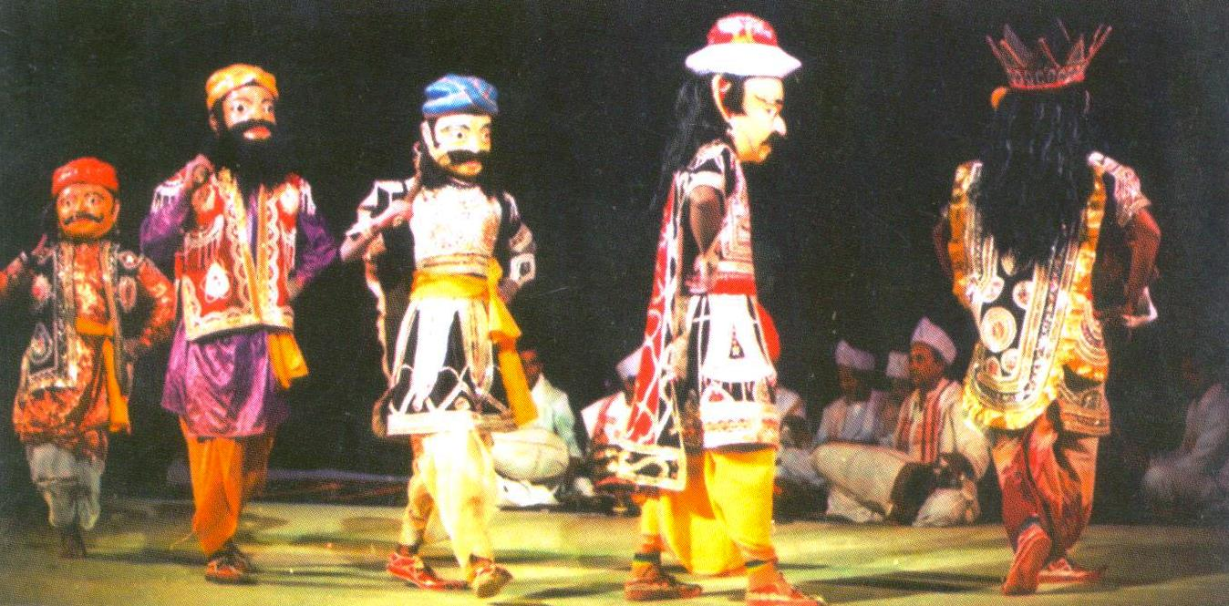 During Rass Mahotsav, artists perform Bhawna (a play of Assam, India based on Hindu mythologies) in Majuli wearing masks.